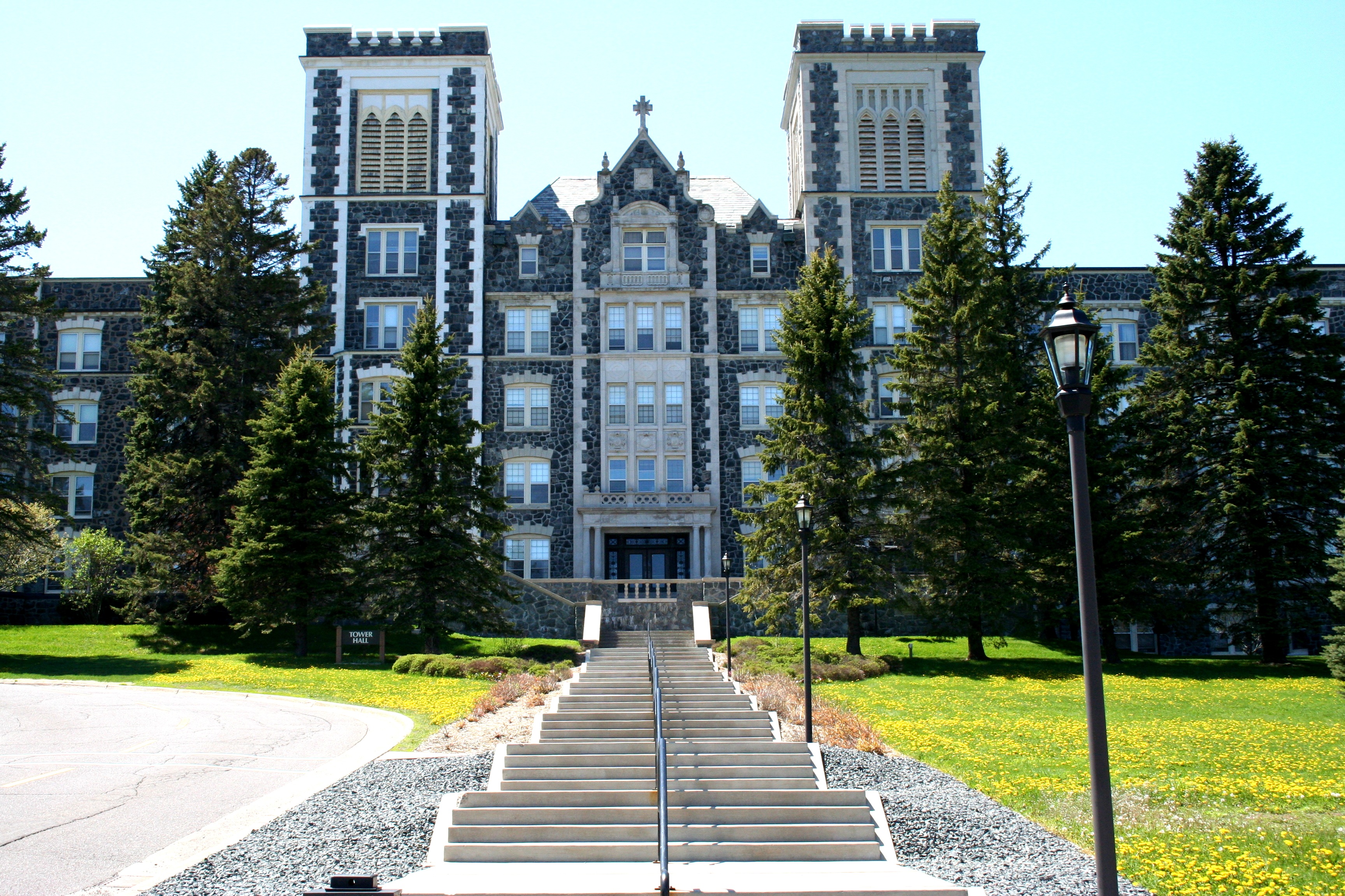 Tower Hall at the College of St Scholastica at Duluth, Minnesota